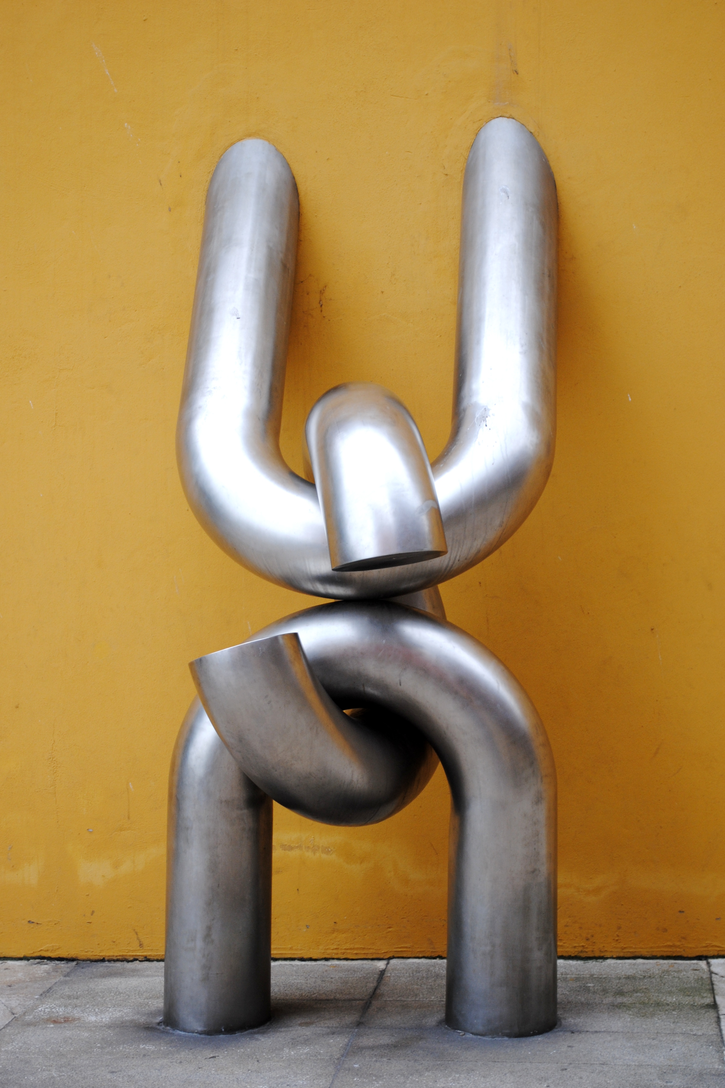 See title.